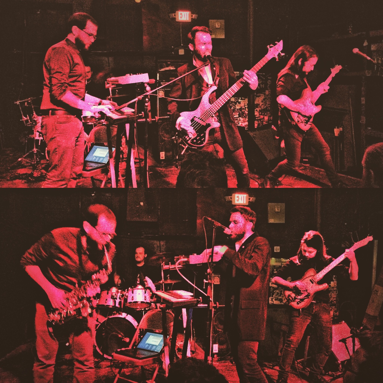 Shot on January 12, 2015 at Local 506 in Chapel Hill, North Carolina.